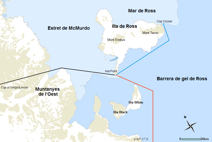 Map of the Discovery Expedition field of work, including three routes of explorations undertaken by members of the British National Antarctic Expedition of 1901-04 led by Robert Falcon Scott. RED line; Southern journey to Furthest South, November 1902 to February 1903. BLACK line; Western journey through Western Mountains to Polar Plateau, October–December 1903. BLUE line; Journeys to message point and Emperor Penguin colony at Cape Crozier, October 1902, September and October 1903.